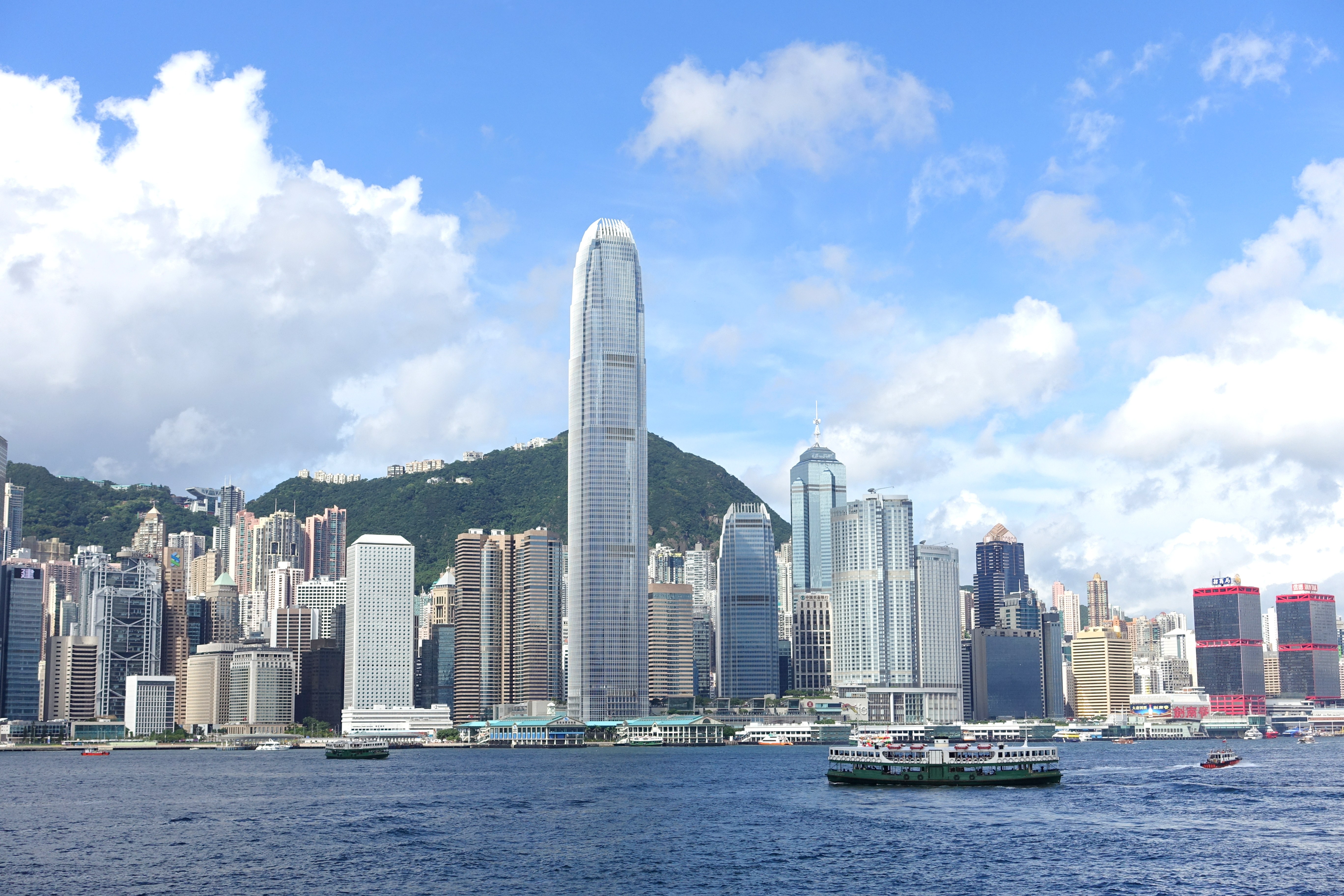 Hong Kong Island from Kowloon Public Pier.